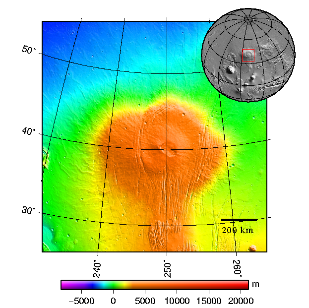 Topography map of shield vulcano Alba Patera on Mars